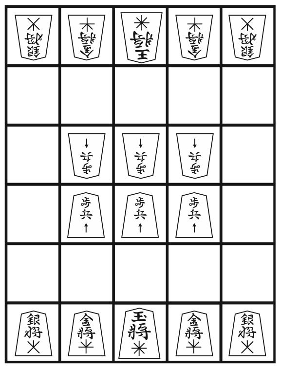 Starting positions of pieces in Goro Goro Shogi